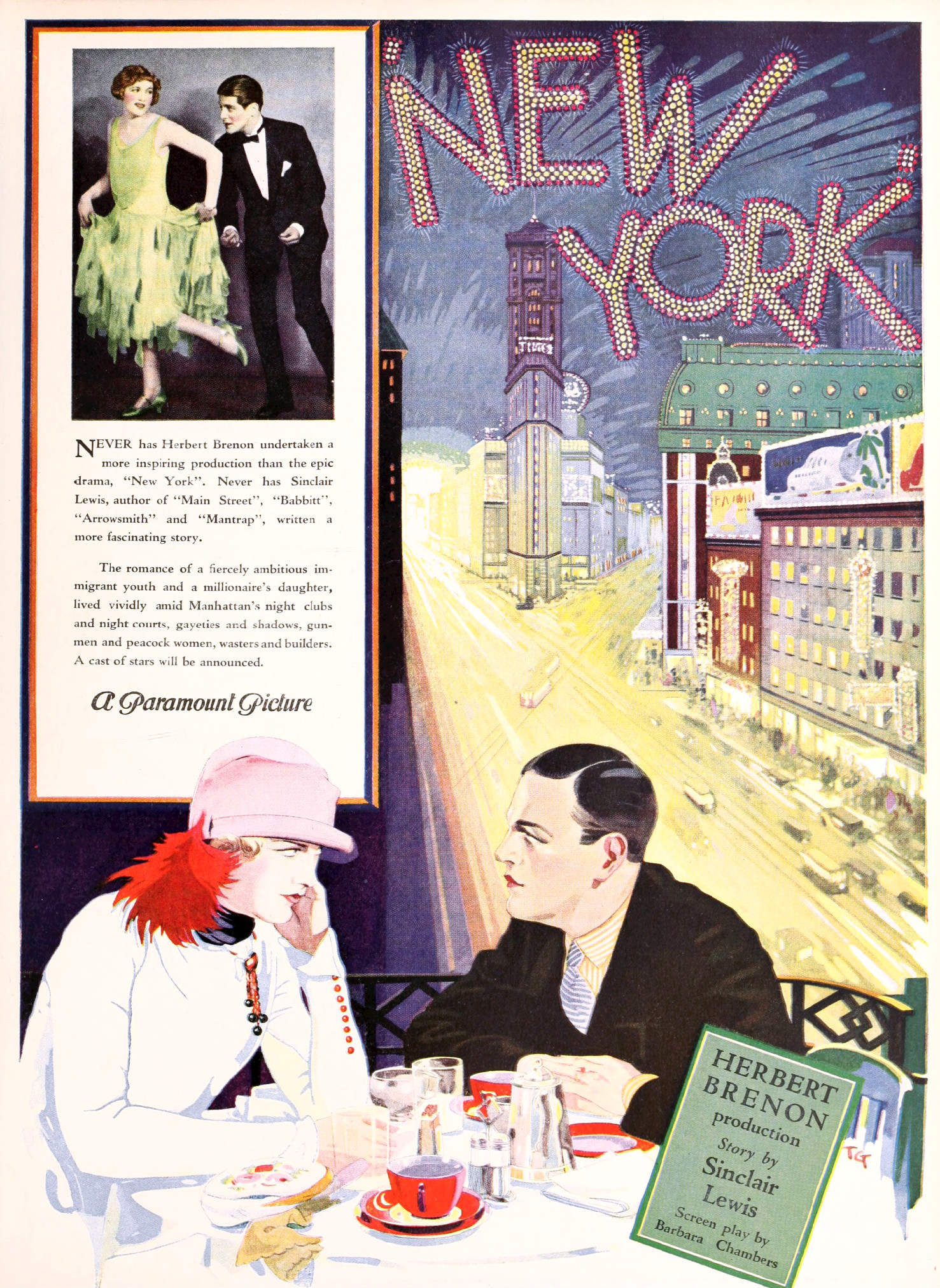 Ad for the 1927 Paramount film New York. Paramount did not mark this ad or any others in this journal with copyright marks. Motion Picture news copyrights did not apply to ads placed in the magazine--to editorial content only. US Copyright Office page 3-magazines are collective works (PDF) "A notice for the collective work will not serve as the notice for advertisements inserted on behalf of persons other than the copyright owner of the collective work. These advertisements should each bear a separate notice in the name of the copyright owner of the advertisement."